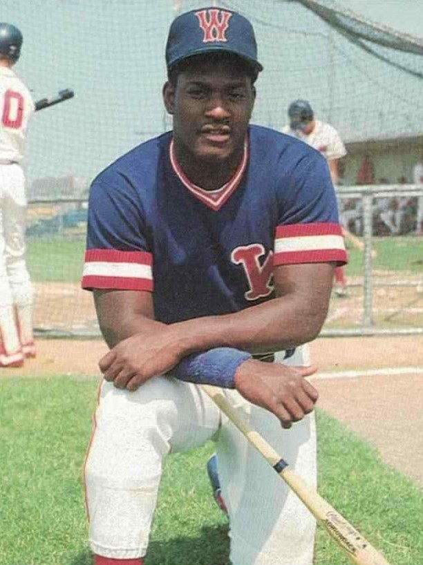 Image cropped from a baseball card of Wareham Gatemen player Mo Vaughn from the 1988 Ballpark Cape Cod League Prospects set.